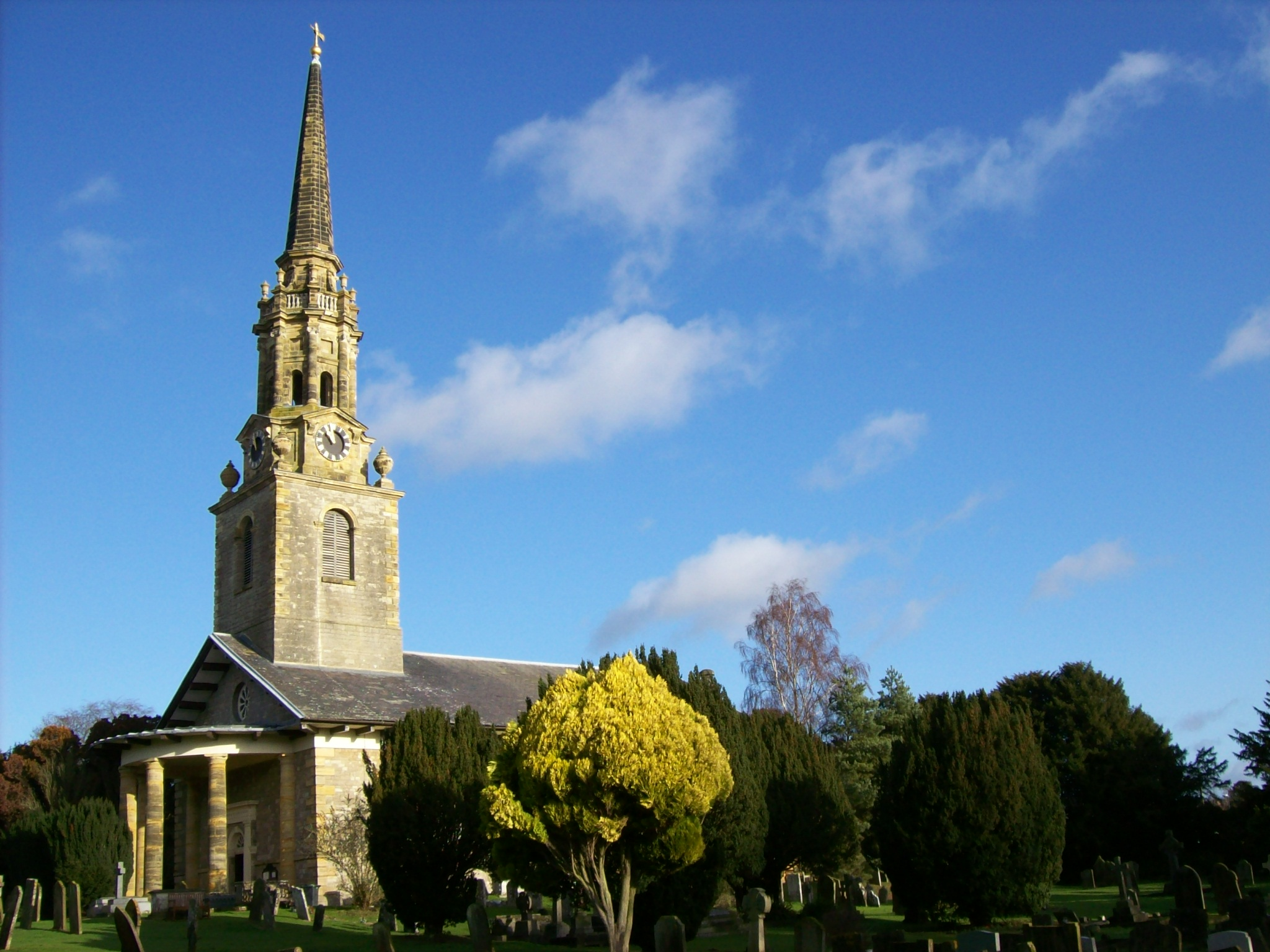 St. Lawrence, Mereworth, Kent